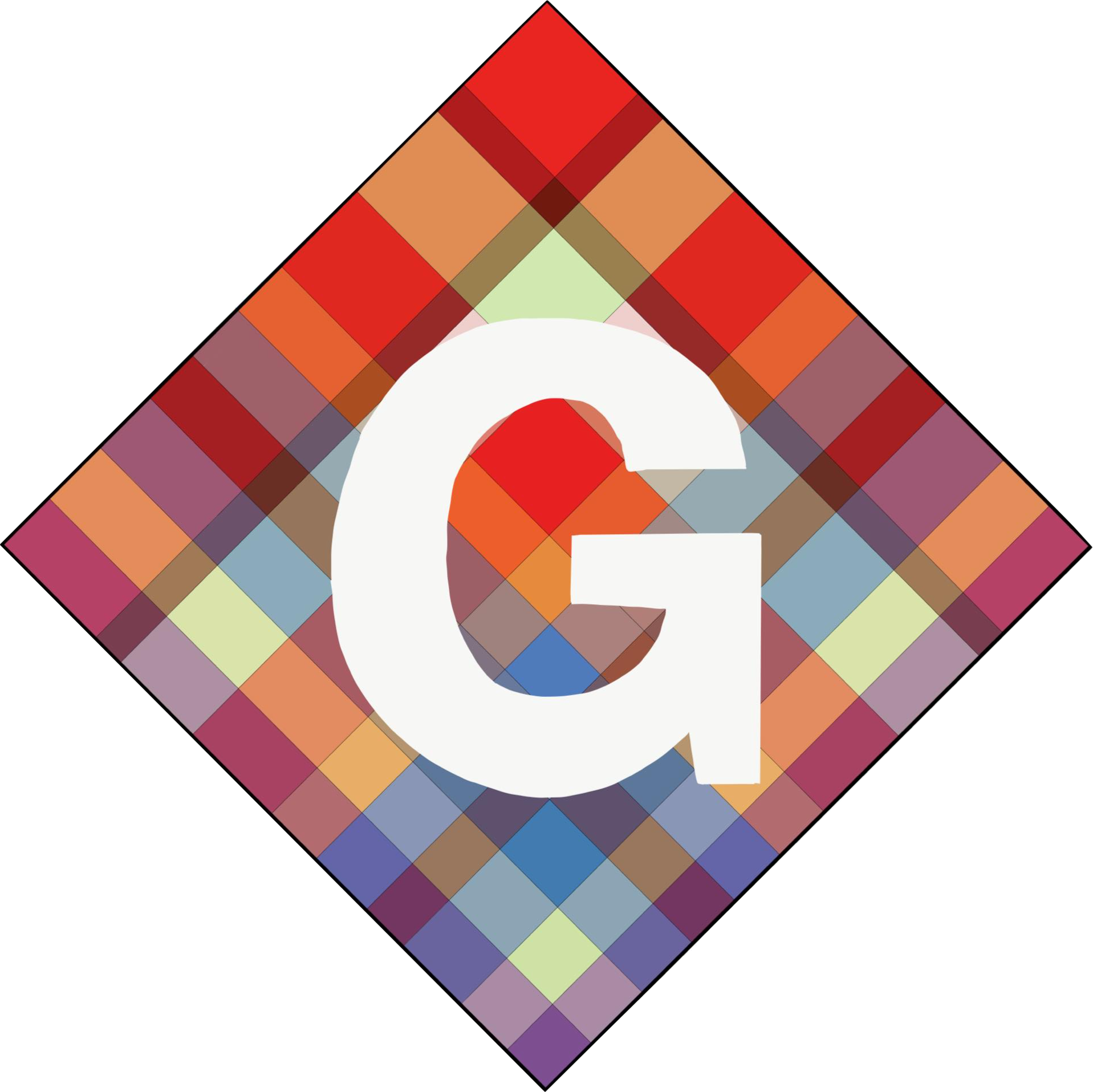 The best team in the game